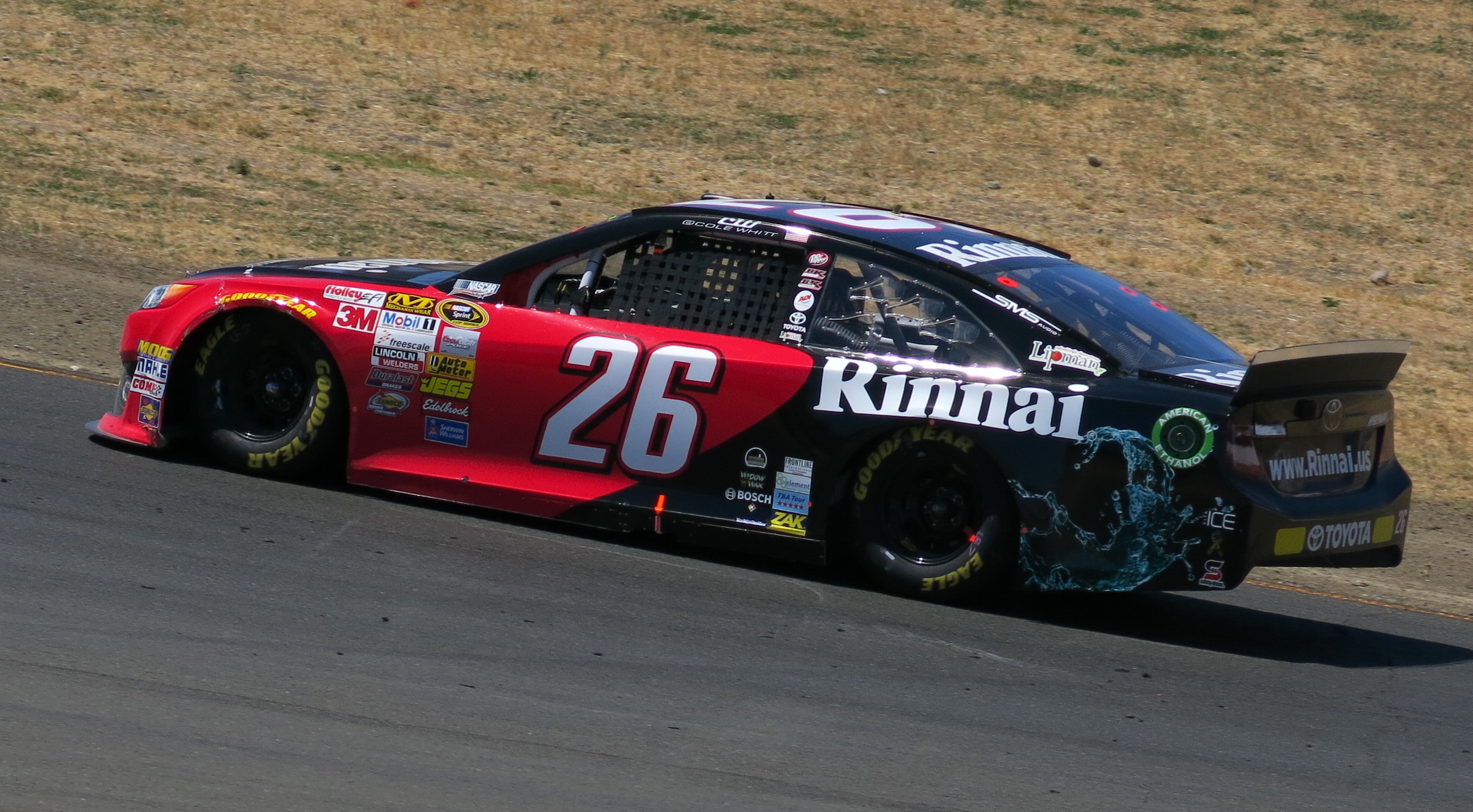 Cole Whitt's No. 26 Rinnai Tankless Water Heaters Toyota at Sonoma Raceway in 2014